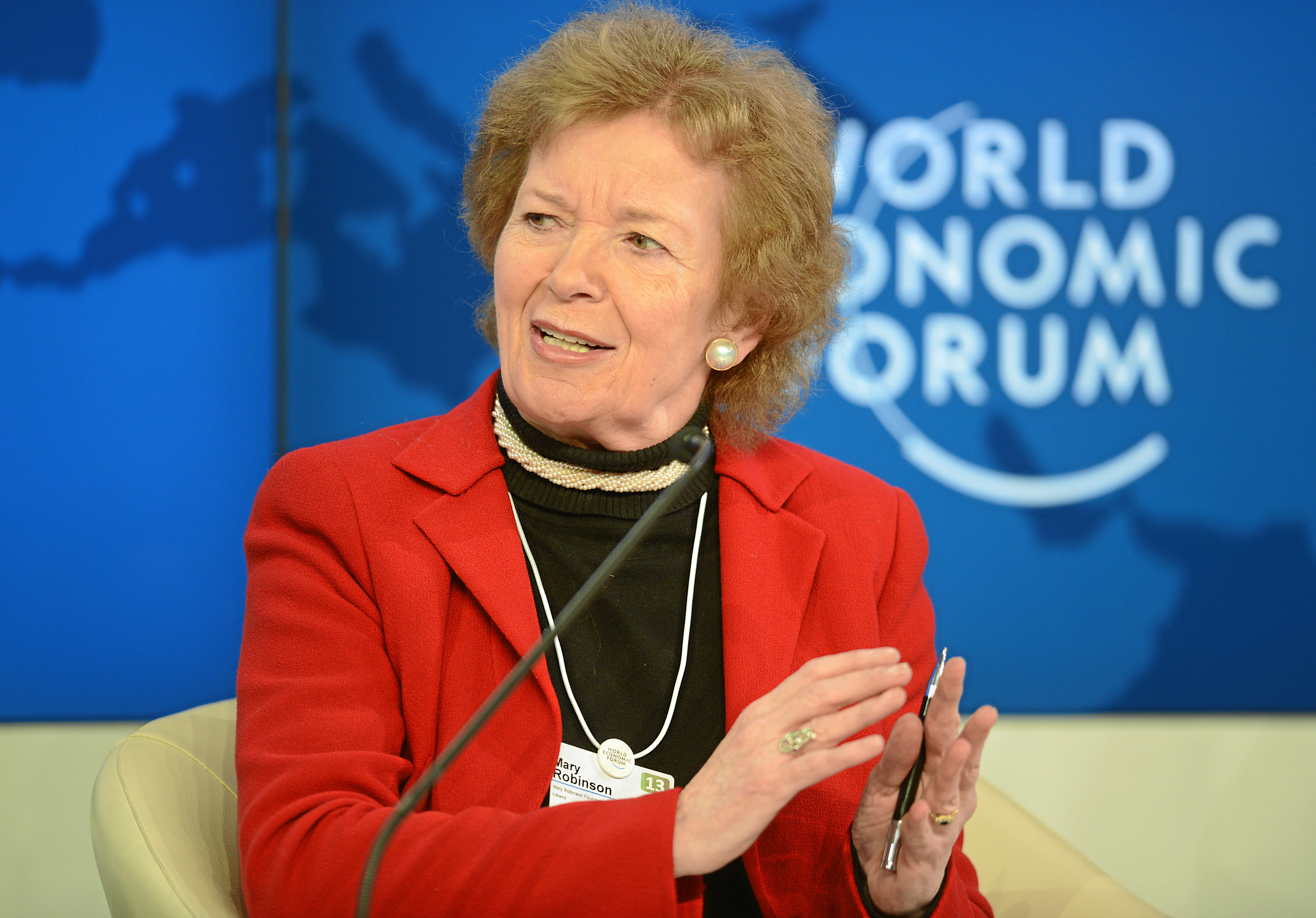 DAVOS/SWITZERLAND, 26JAN13 - Mary Robinson, President, Mary Robinson Foundation-Climate Justice, Ireland; Global Agenda Council on Human Rights speaks during the Session 'The Moral Economy: From Social Contract to Social Covenant' at the Annual Meeting 2013 of the World Economic Forum in Davos, Switzerland, January 26, 2013.. . Copyright by World Economic Forum. . Michael Wuertenberg